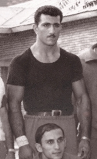 Iranian Weightlifting Team for the 1960 Olympics. Amir Mangasheti.